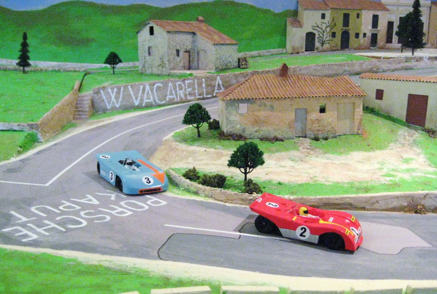 This new model car racing system enables highly realistic and skillful racing. Cars are radio controlled and lithium battery powered.